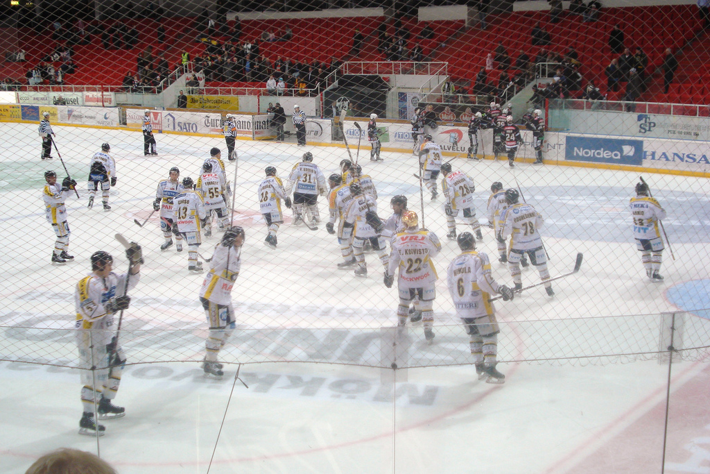 Finnish ice hockey team Kärpät Oulus players